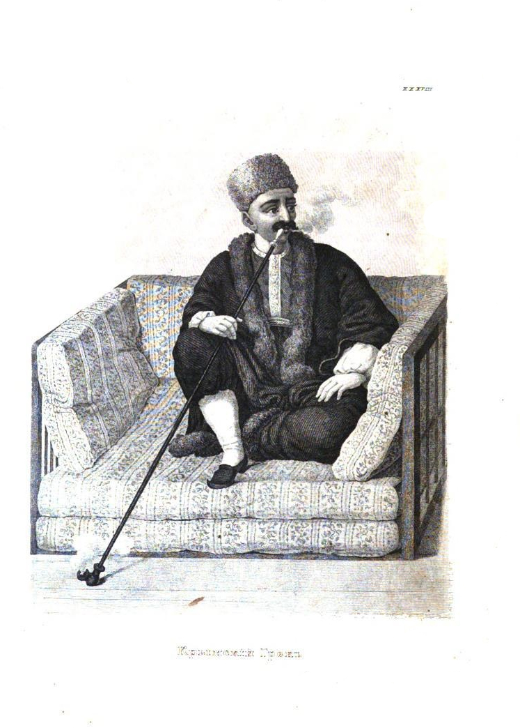 Krym